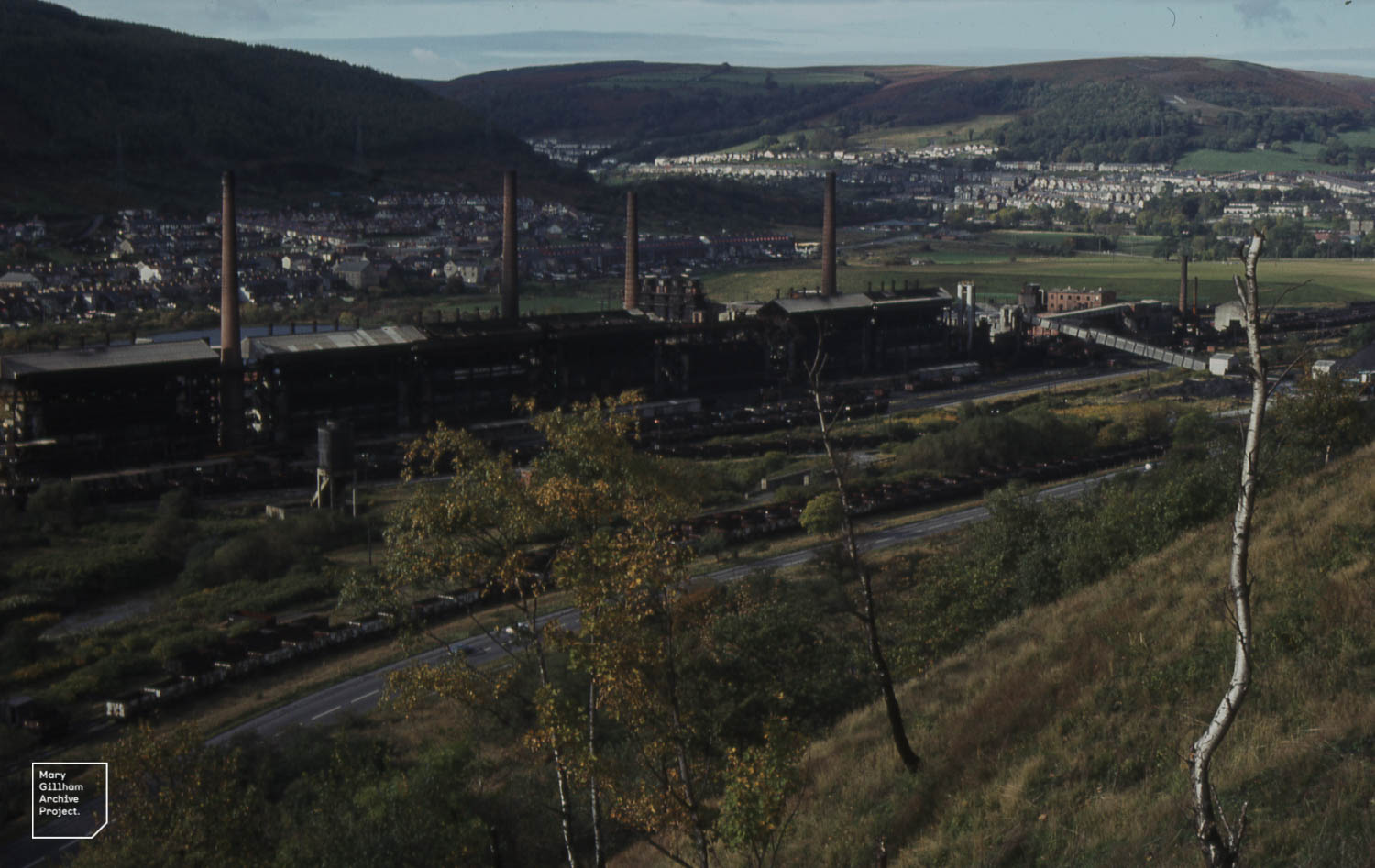 Phurnacite Works. Cynon Valley near Aberammon Phurnacite smokeless fuel factory, Abercwmboi